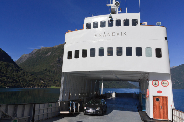 MF Skånevik on Fjærlandfjorden, Sogn og Fjordane.